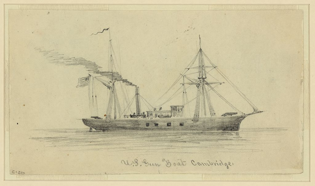 U.S. Gunboat Cambridge. Broadside view steamship. 1 drawing on ivory paper : pencil ; 9.4 x 16.7 cm. (sheet). USS Cambridge (1861) was a heavy (868 long tons (882 t) steamship purchased by the Union Navy at the start of the American Civil War. She was outfitted as a gunboat, with two 8 in (200 mm) rifled guns, and assigned to the blockade of ports and waterways of the Confederate States of America.